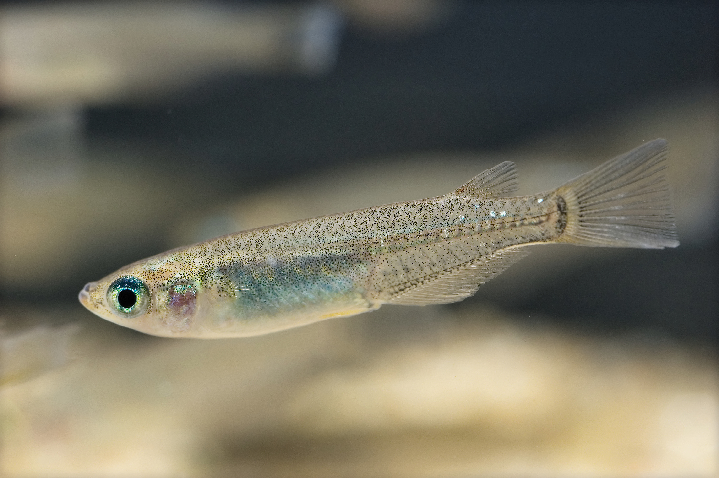 Medaka(Japanese killifish, or Japanese rice fish), Oryzias latipes, from Hamamatsu, Shizuoka, Japan.